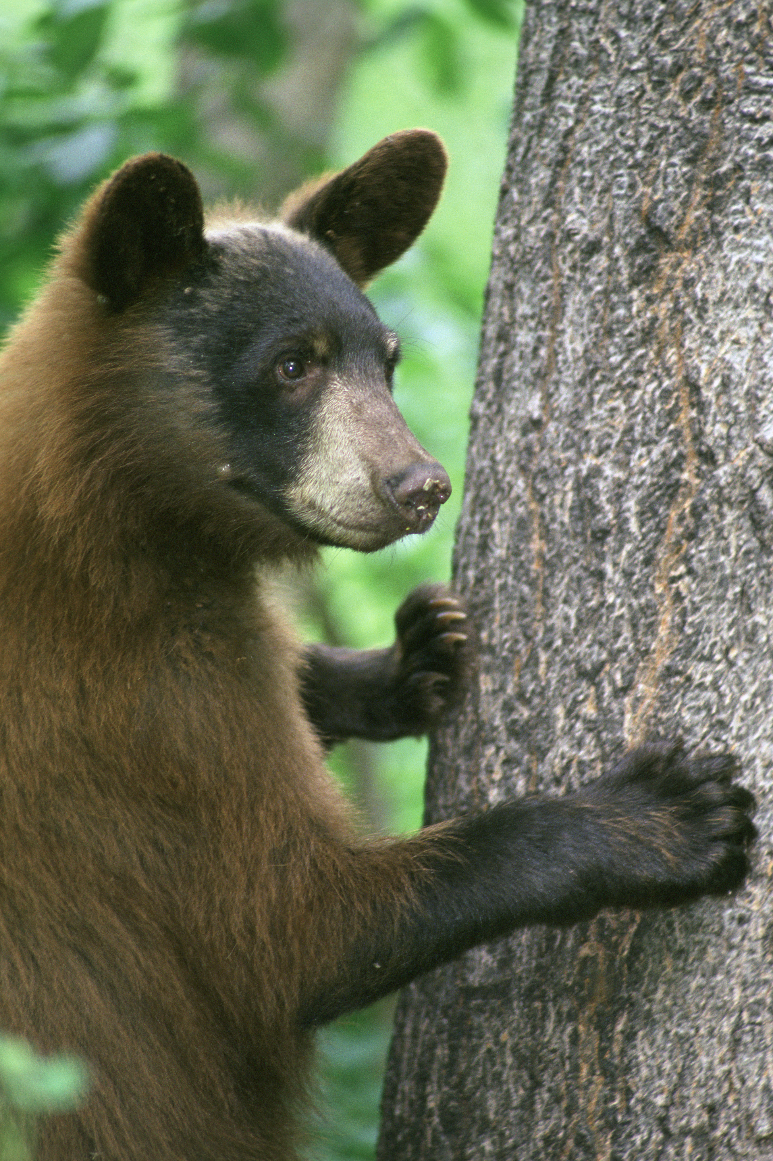 American black bear (Ursus americanus) FWS